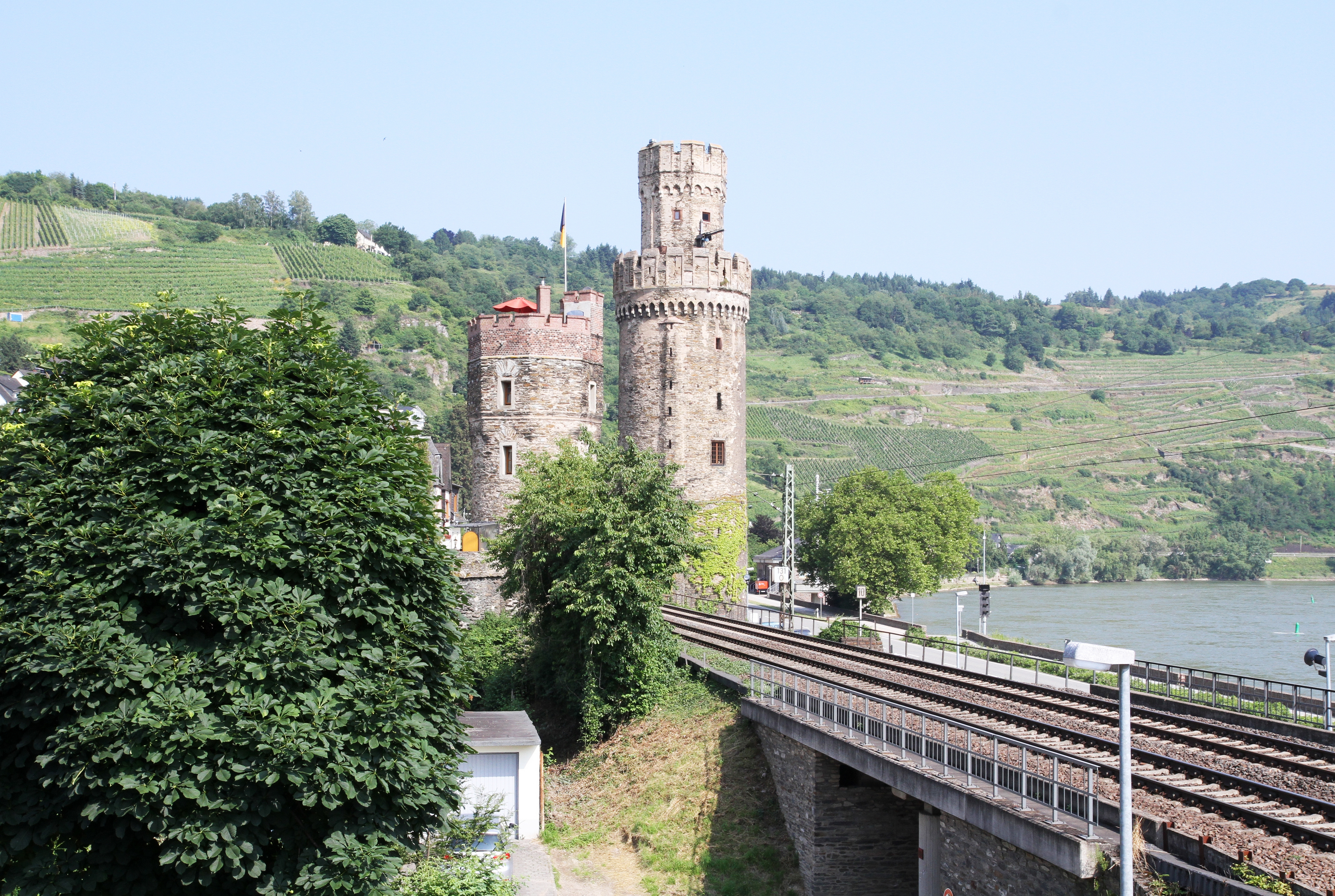 Medieval defensive wall of Oberwesel, Rhine, Germany. The photograph shows Ochsenturm, riverside City in north.